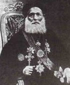 113th Pope & Patriarch of Alexandria